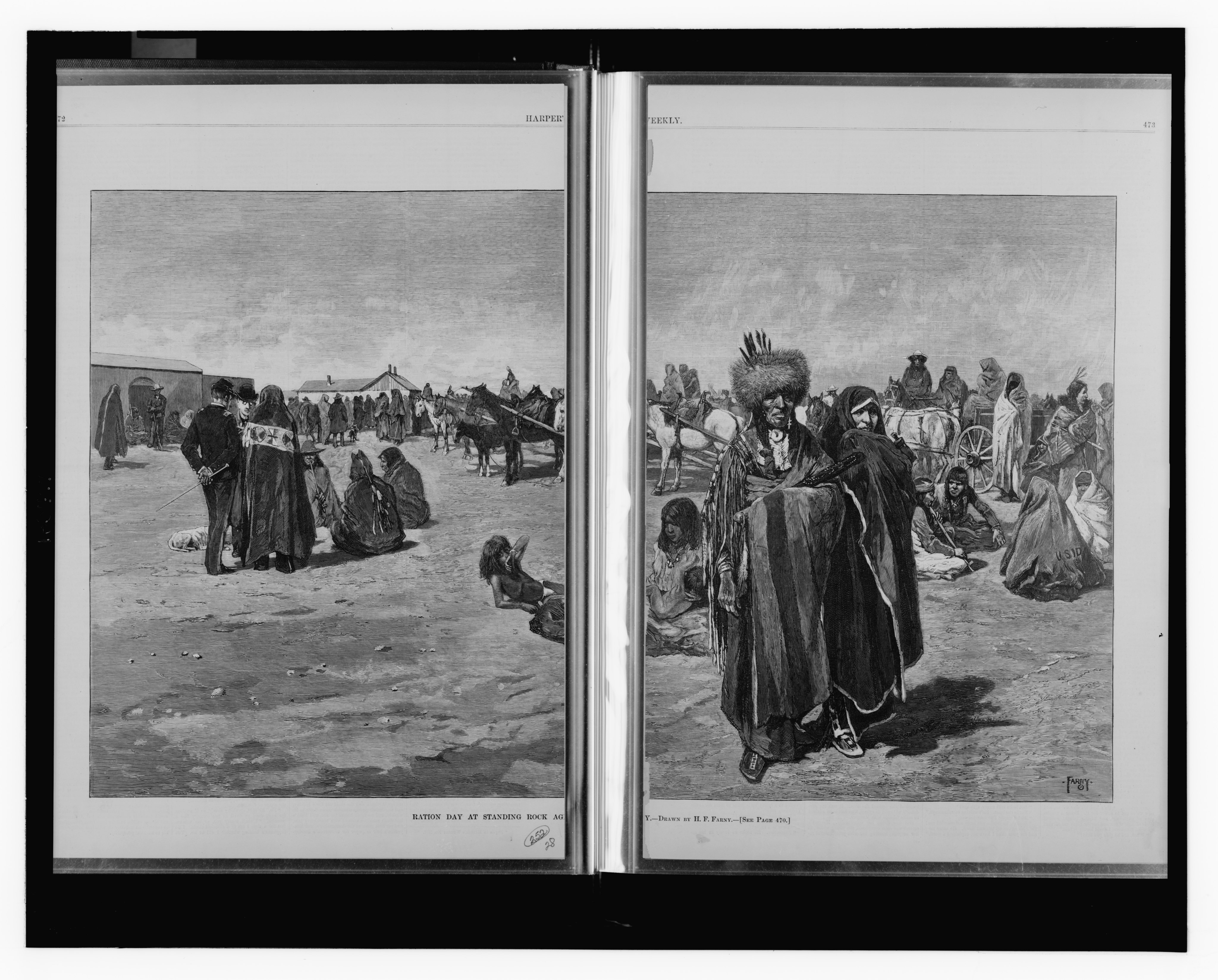 Title: Ration day at Standing Rock Ag[enc]y / drawn by H.F. Farny. Abstract/medium: 1 print (2 pages) : wood engraving.